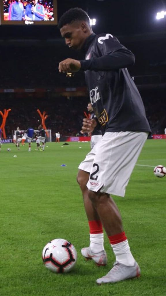 Amsterdam Arena, peruvian foobal player Marcos Johan Lopez Lanfranco